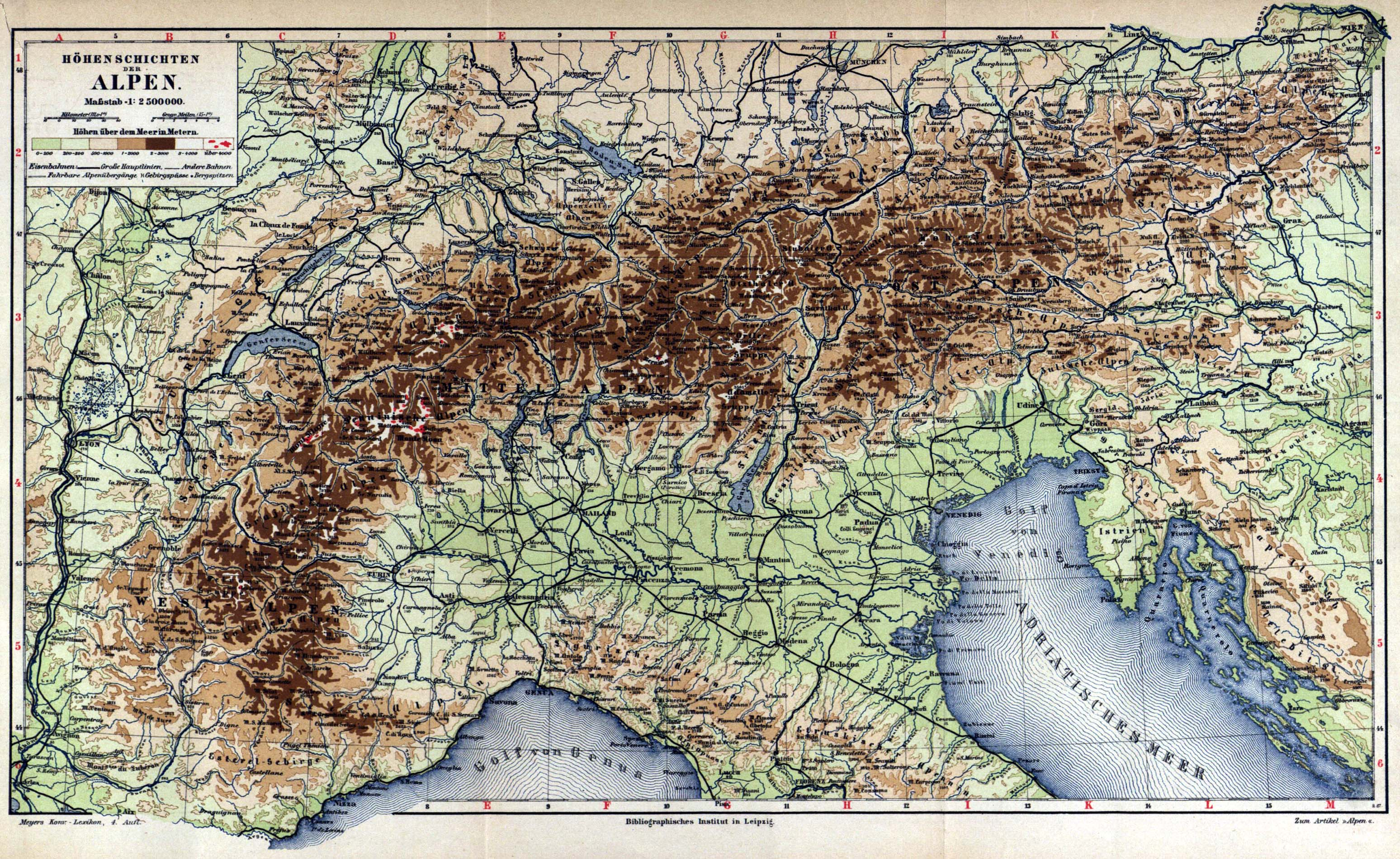 Meyers Konversationslexikon — Vol. 1 — map to page 394 — Elevation levels of the Alps